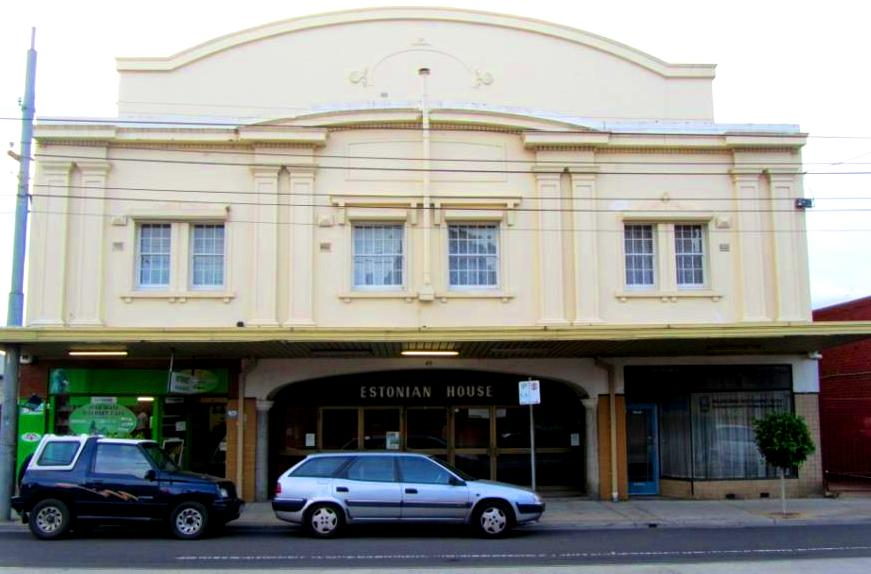 Estonian House in Melbourne